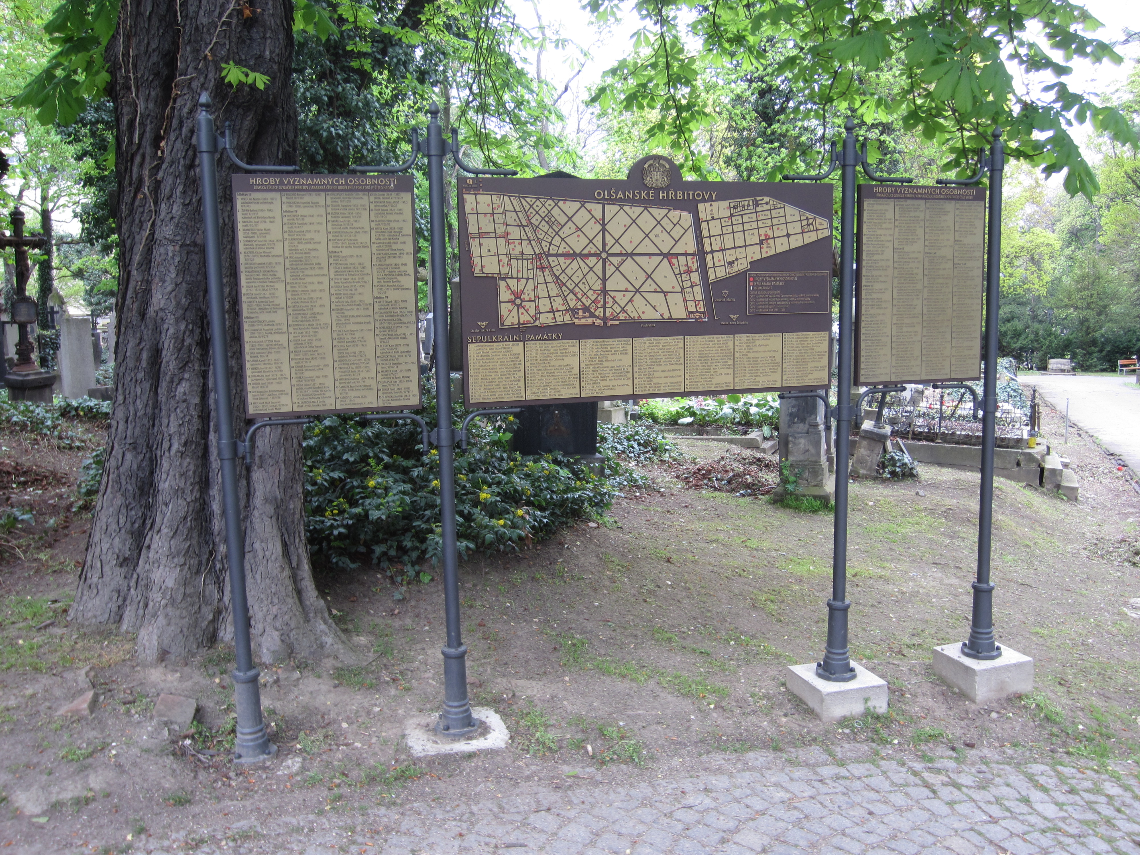 Prague, Czech Republic, April 2016